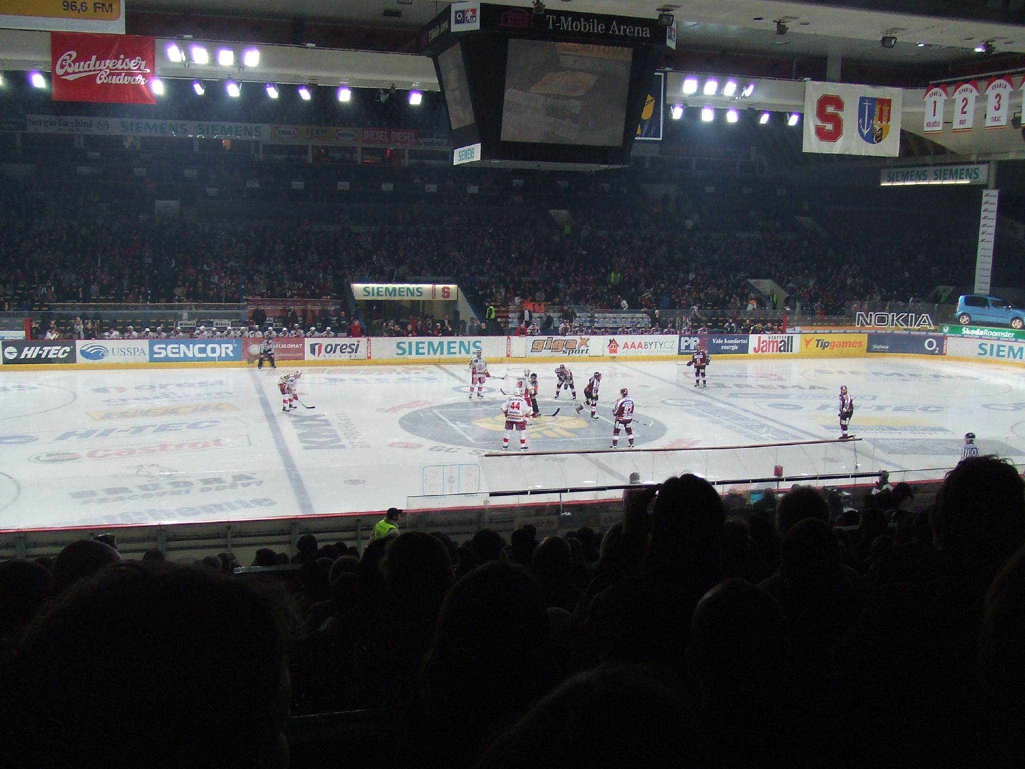 Sparta Prag vs Slavia Prag, T-Mobile Arena, Prague Czech Republic